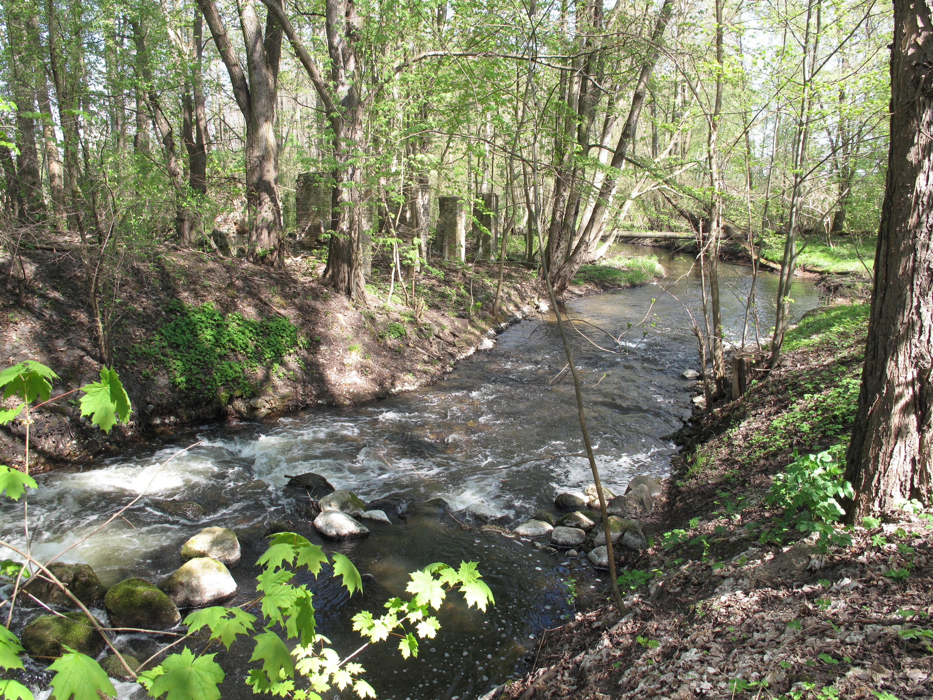 Fish ladder of the river Stöbber (constructed in 1992) at the former Damm-Mühle (water mill) in Altfriedland, a village of the municipality Neuhardenberg. The Stobber (also called Stöbber) is the central river in the hill country „Märkische Schweiz“ and the Märkische Schweiz Nature Park, Brandenburg, Germany. The stream runs over a distance of 25 kilometers from the lowland moor and source area Rotes Luch towards the northeast through Buckow to the Oderbruch. The Stobber flows at Neuhardenberg to the „Friedländer Strom“, whose waters run over some canals to the Oder River → Baltic Sea. On a roughly 13 kilometer long route of its course there is designated the nature protection area „Naturschutzgebiet Stobbertal“.